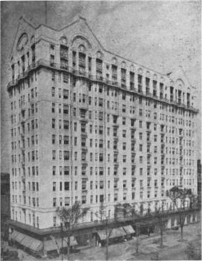 The Hotel Theresa in Harlem, New York City, from 1920.